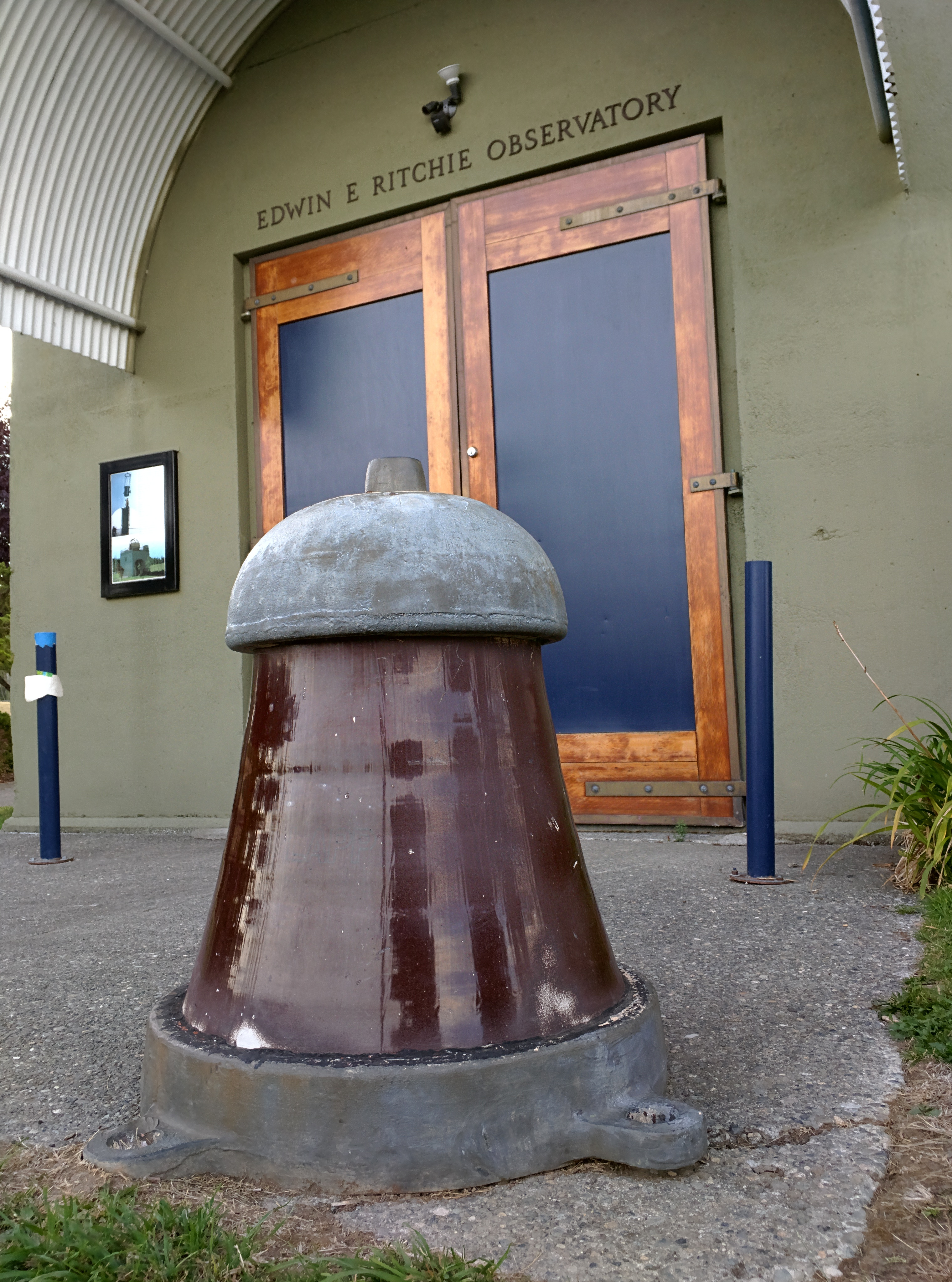 The Edwin E. Ritchie Observatory front door at Battle Point Park, Bainbridge Island, Washington, with an insulation from the original extremely low frequency (ELF) transmitter that was in that location during WWII for communicating with American submarines